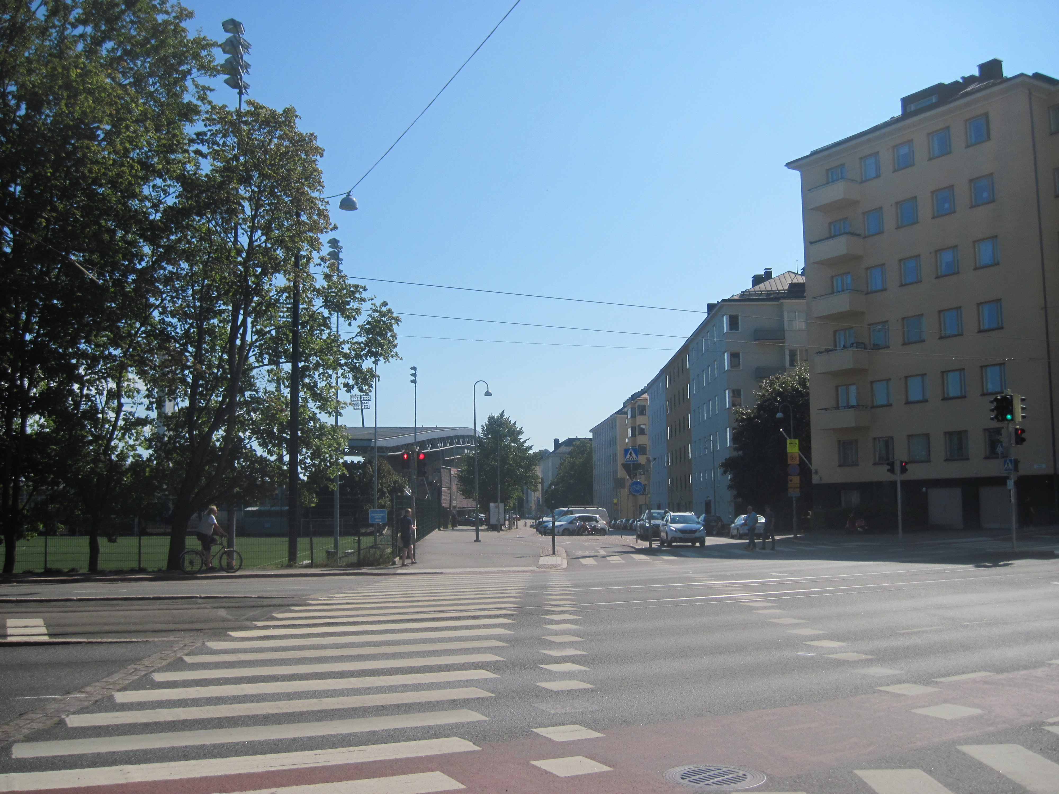 Urheilukatu in Helsinki, as seen southwards from the corner of Nordenskiöldinkatu